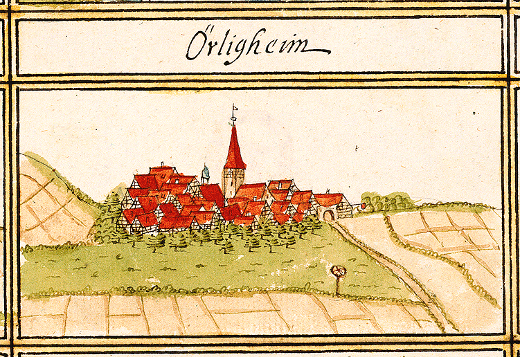 View of Erligheim from the forest register books created by Andreas Kieser